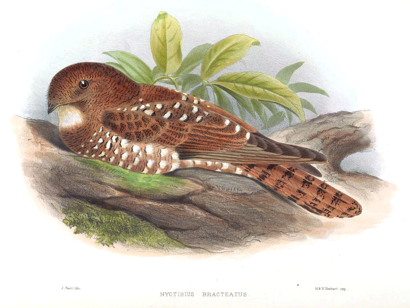 Nyctibius bracteatus